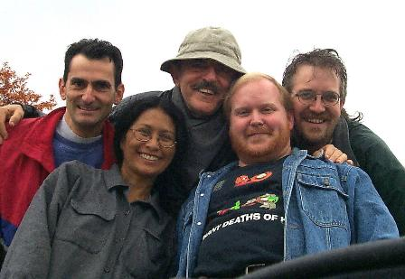 This is the Cast and Crew from "Once Upon A Midnight" on Brian L'Ecuyer's first time out (far left) He replaced Bryan Lucas (2nd from right) as the Production Stage Manager.